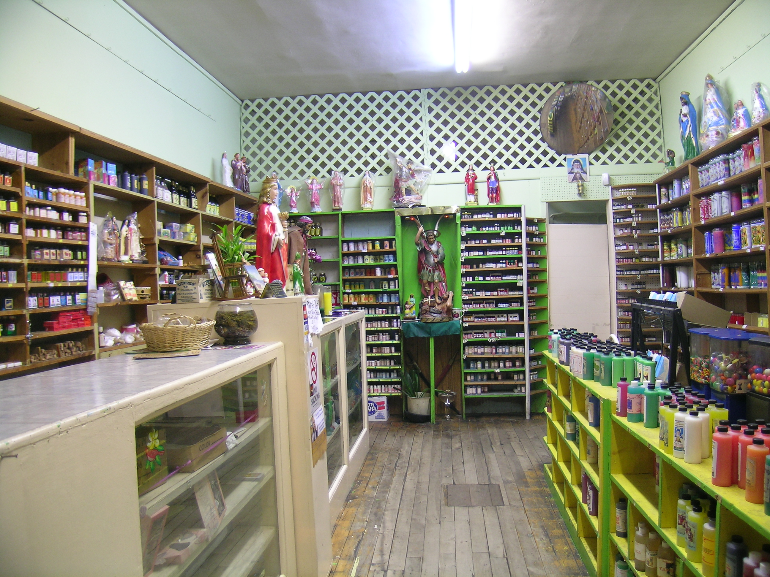 Interior of a botánica on Centre Street in Jamaica Plain, Massachusetts. April 2008 photo by John Stephen Dwyer